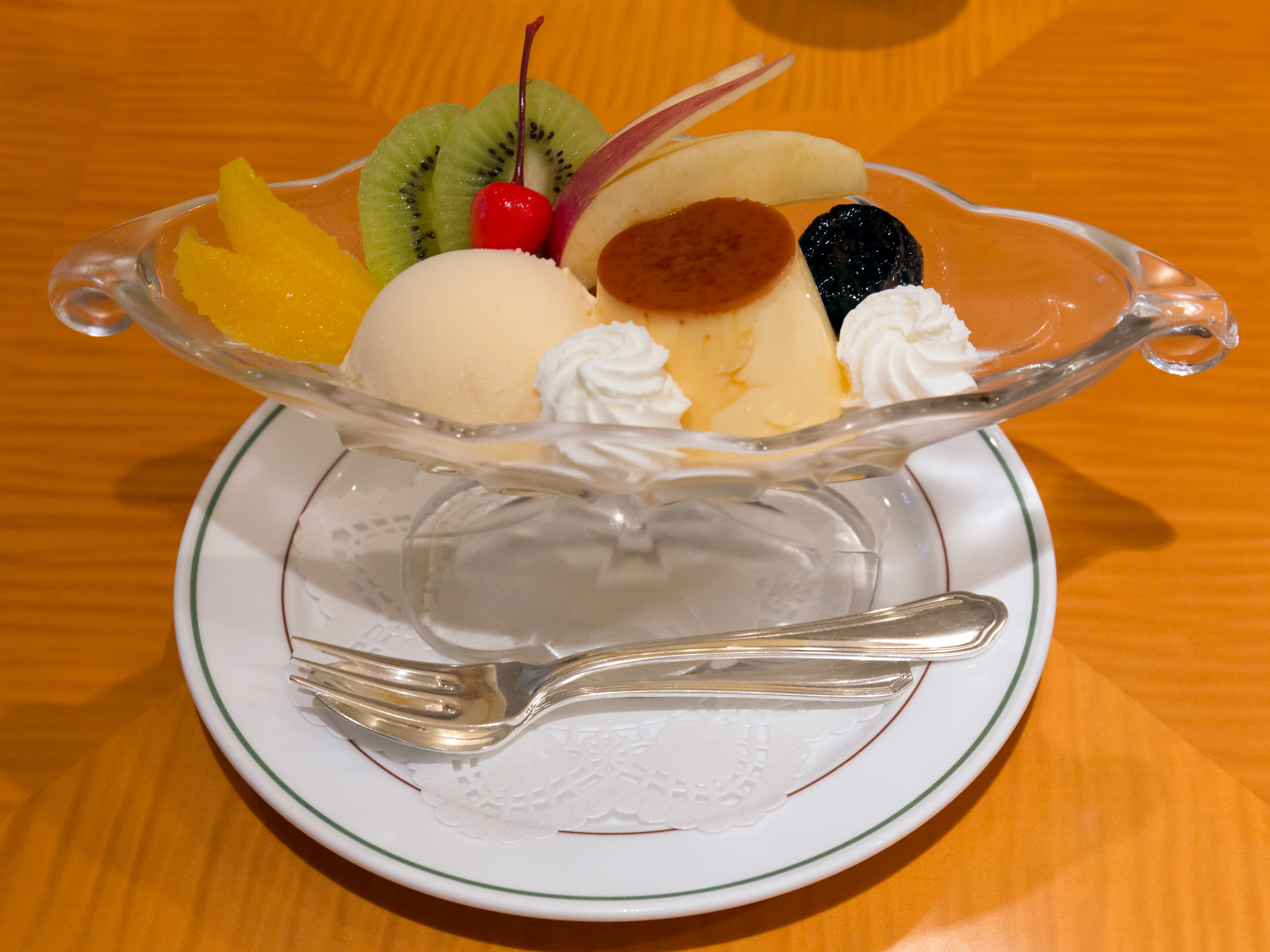 Pudding à la mode (The Cafe, Hotel New Grand).